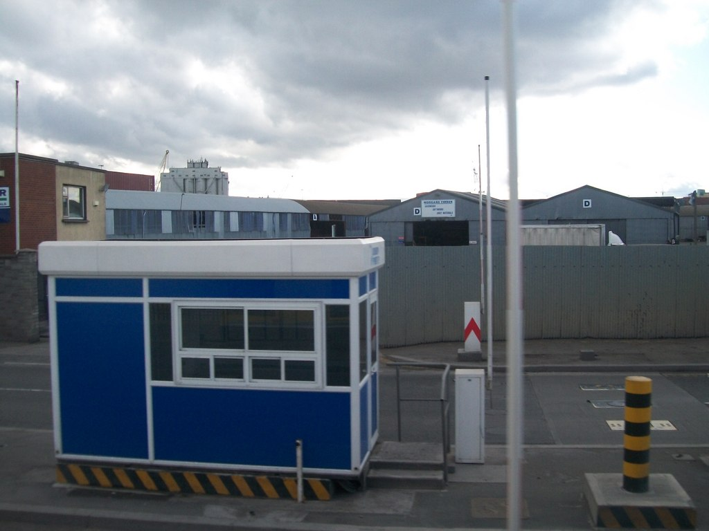 Security Checkpoints in Promenade Road Security in the Port Area is the responsibility of the Dublin Harbour Police, which is operated by the Dublin Port Authority. .